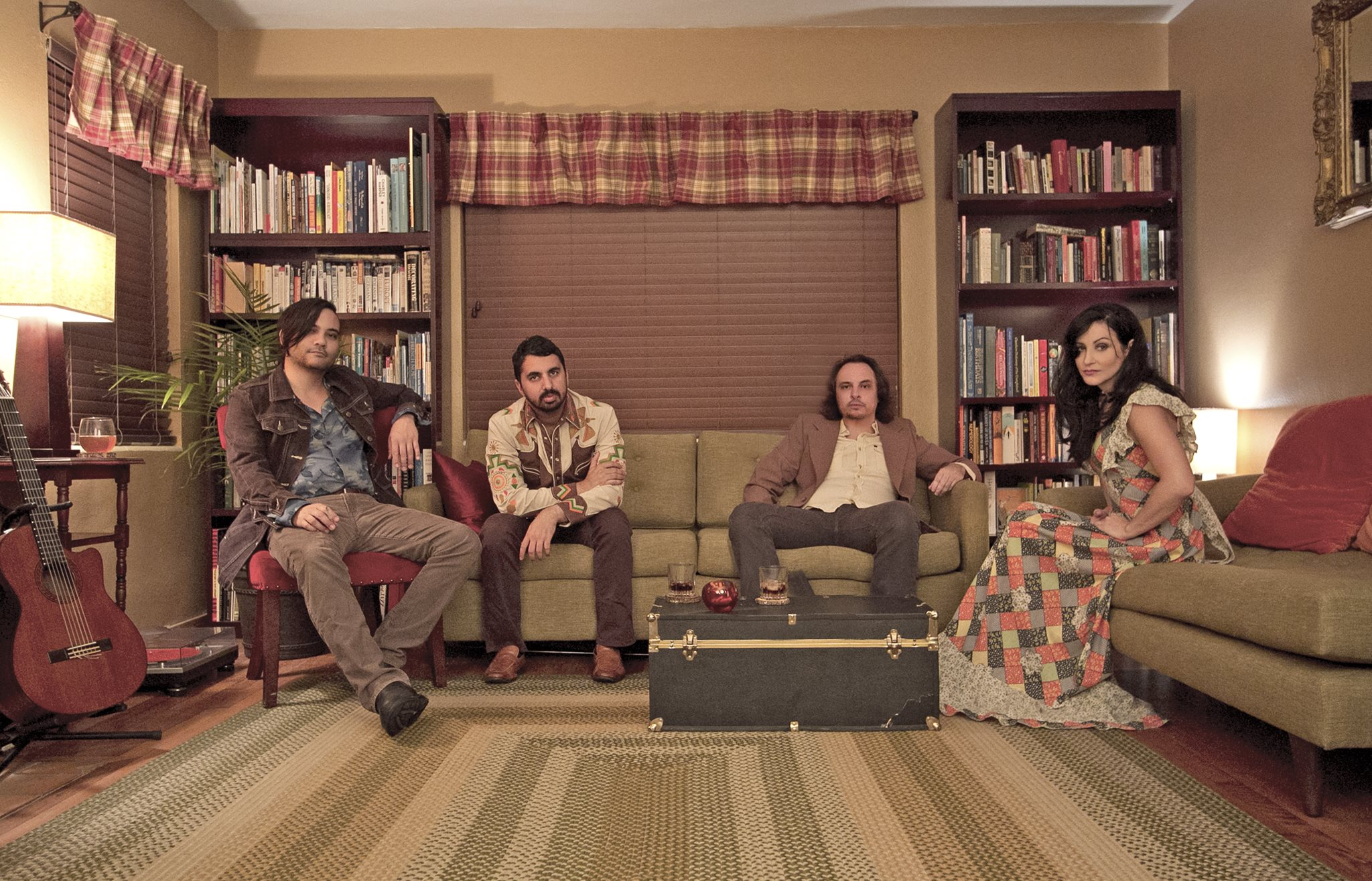 Scott Rubia, Ian Latchmansingh, Mitchell Cichocki, and Emma Kathan of The Black Pine